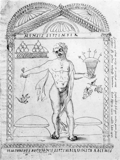 Month of September from in the Chronography of 354 by the 4th century kalligrapher Filocalus. The copies of the original illustrations are pen drawings in a 17th century manuscript from the Barberini collection (Vatican Library, cod. Barberini lat. 2154).